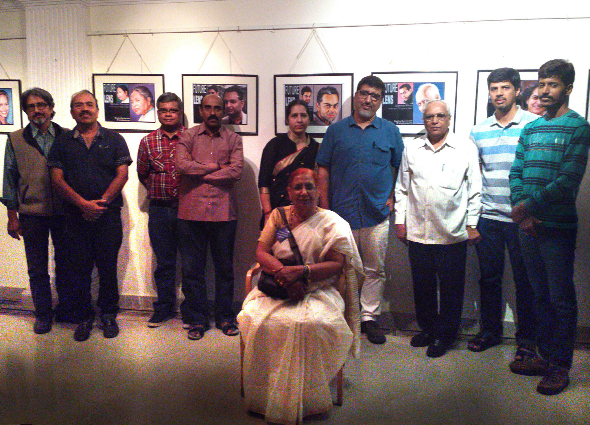 Bangalore Cartoonists from various media houses on the inauguration day of an Exhibition (January7-28, 2017) by Cartoonist Shekhar Gurera at Indian Cartoon Gallery, Bangalore, organized by Indian Institute of Cartoonists